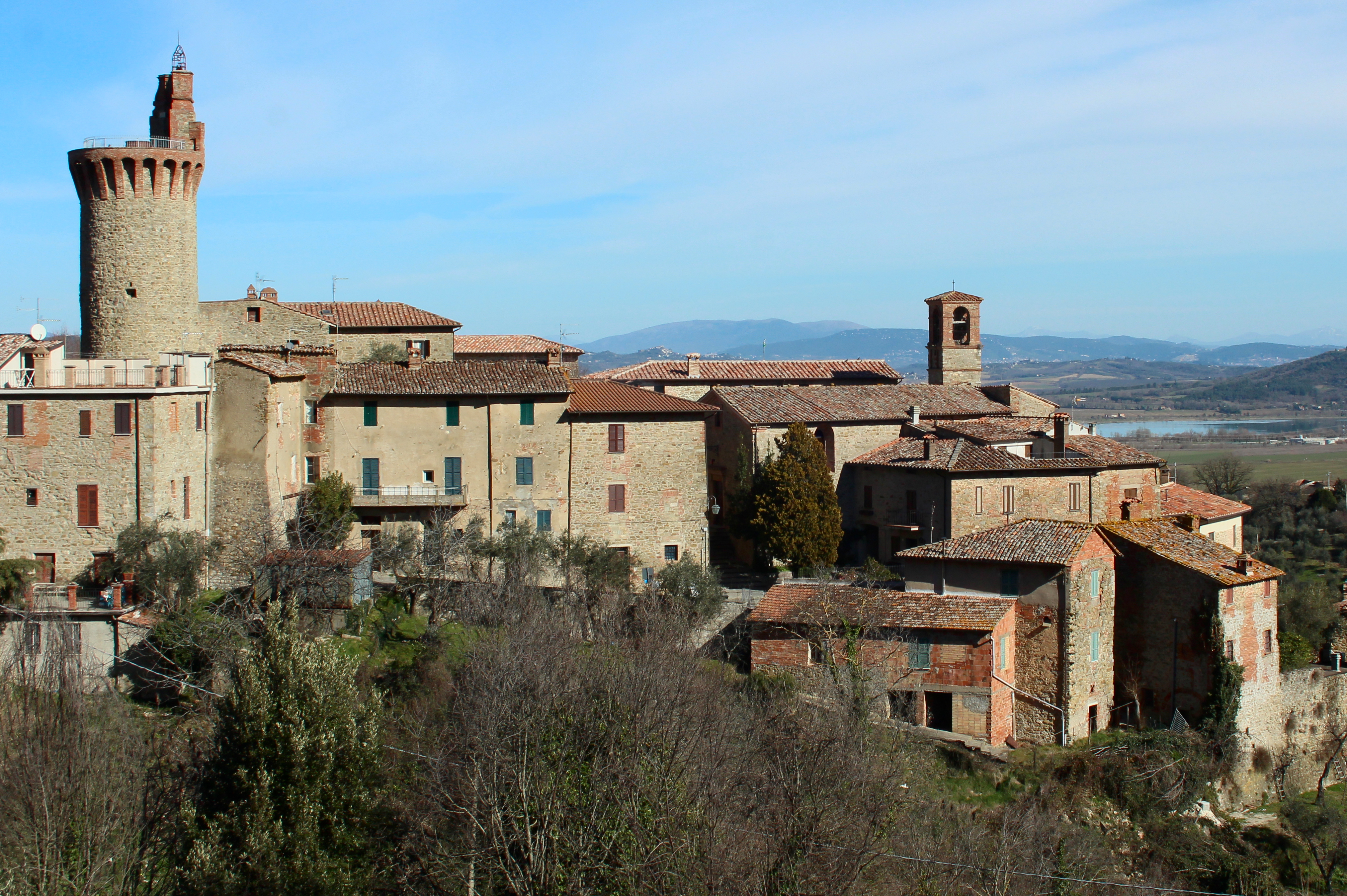 Castiglion Fosco, hamlet of Piegaro, Province of Perugia, Umbria, Italy